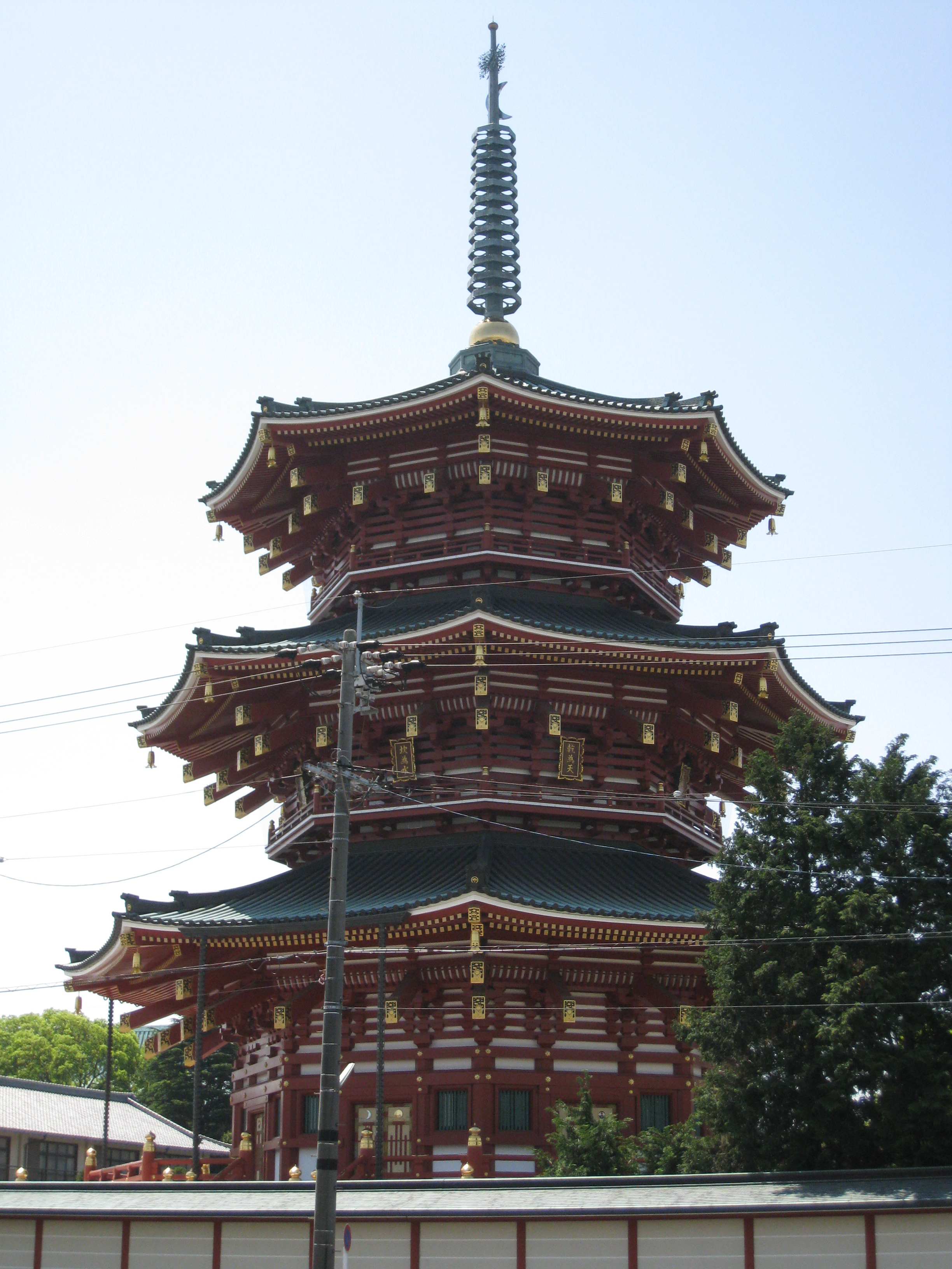 The headquarters of Sekai Shindokyo (世界心道教 Sekai Shindōkyō), located at Suwa, Toyokawa, Aichi, Japan